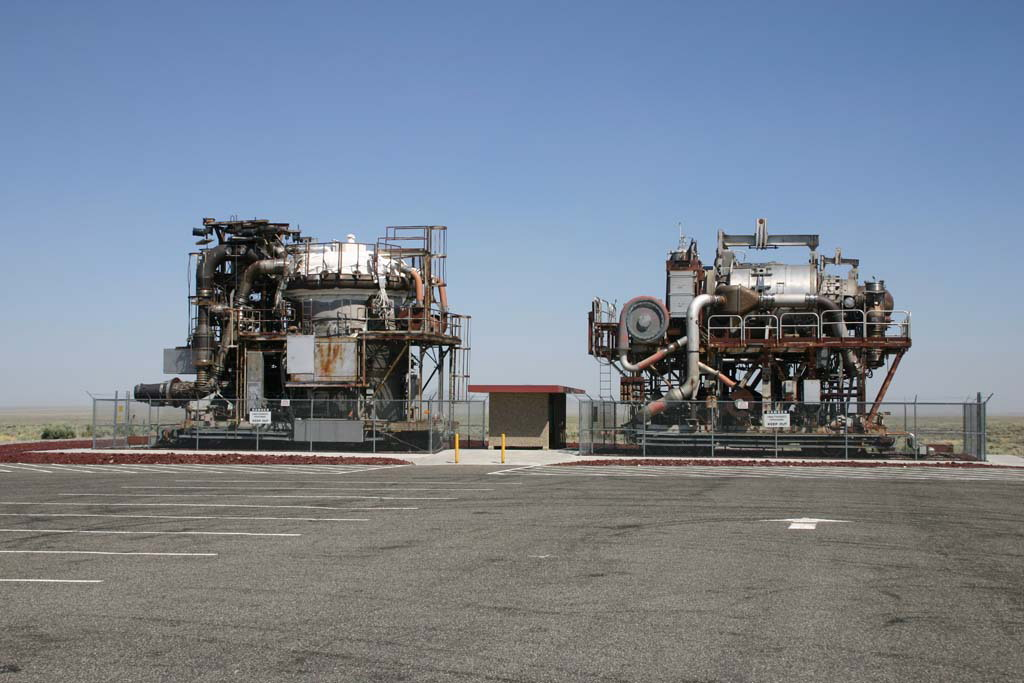 Experimental HTRE reactors for nuclear aircraft, EBR-1 site, Idaho